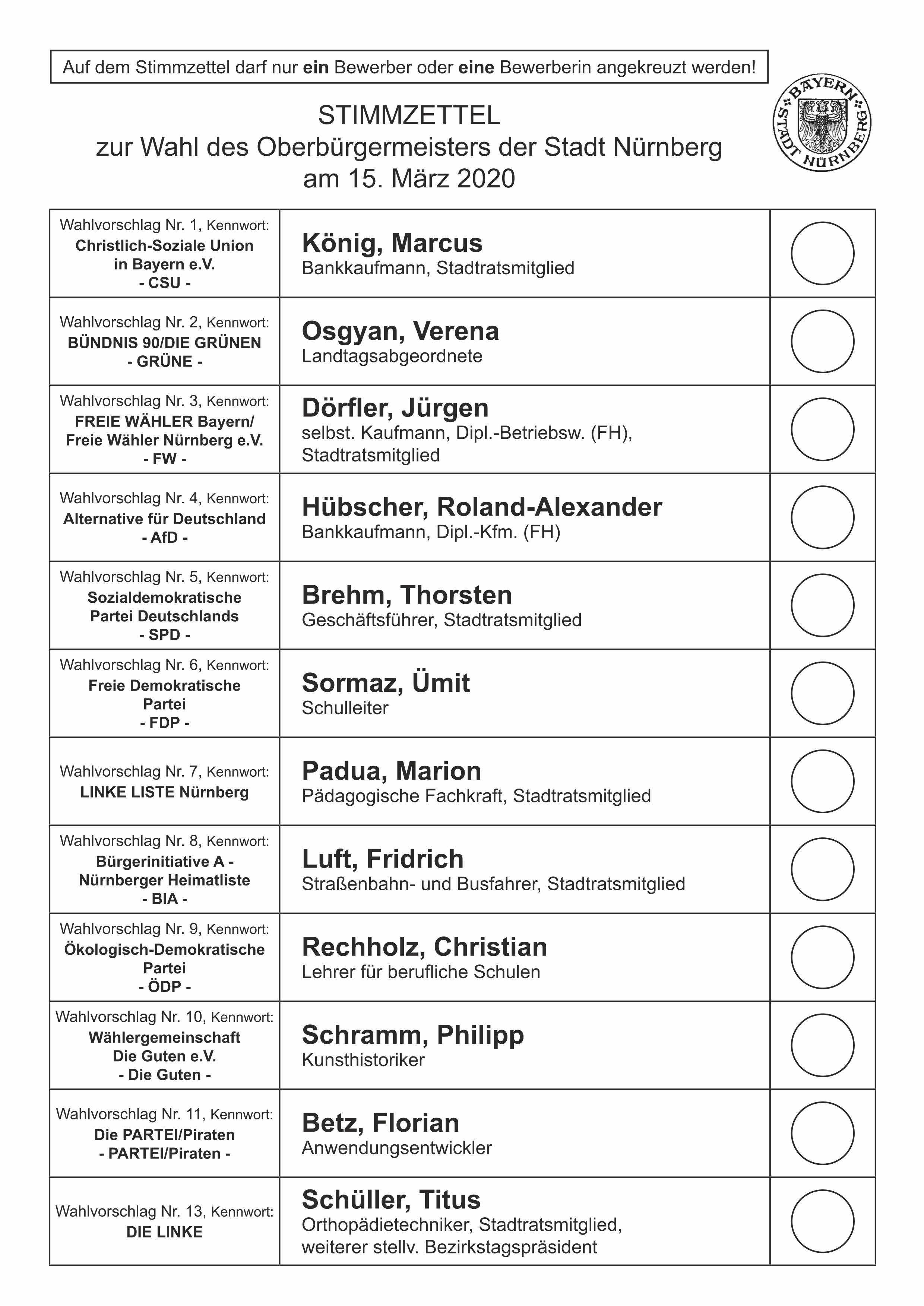 Sample ballot cards Lord Mayor election Nuremberg 2020